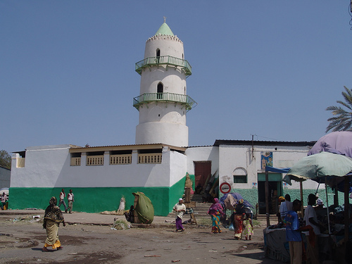 Djibouti. Image taken by Charles Fred on flickr. The creator has granted GFDL licensing and permission for use in the wikimedia project.